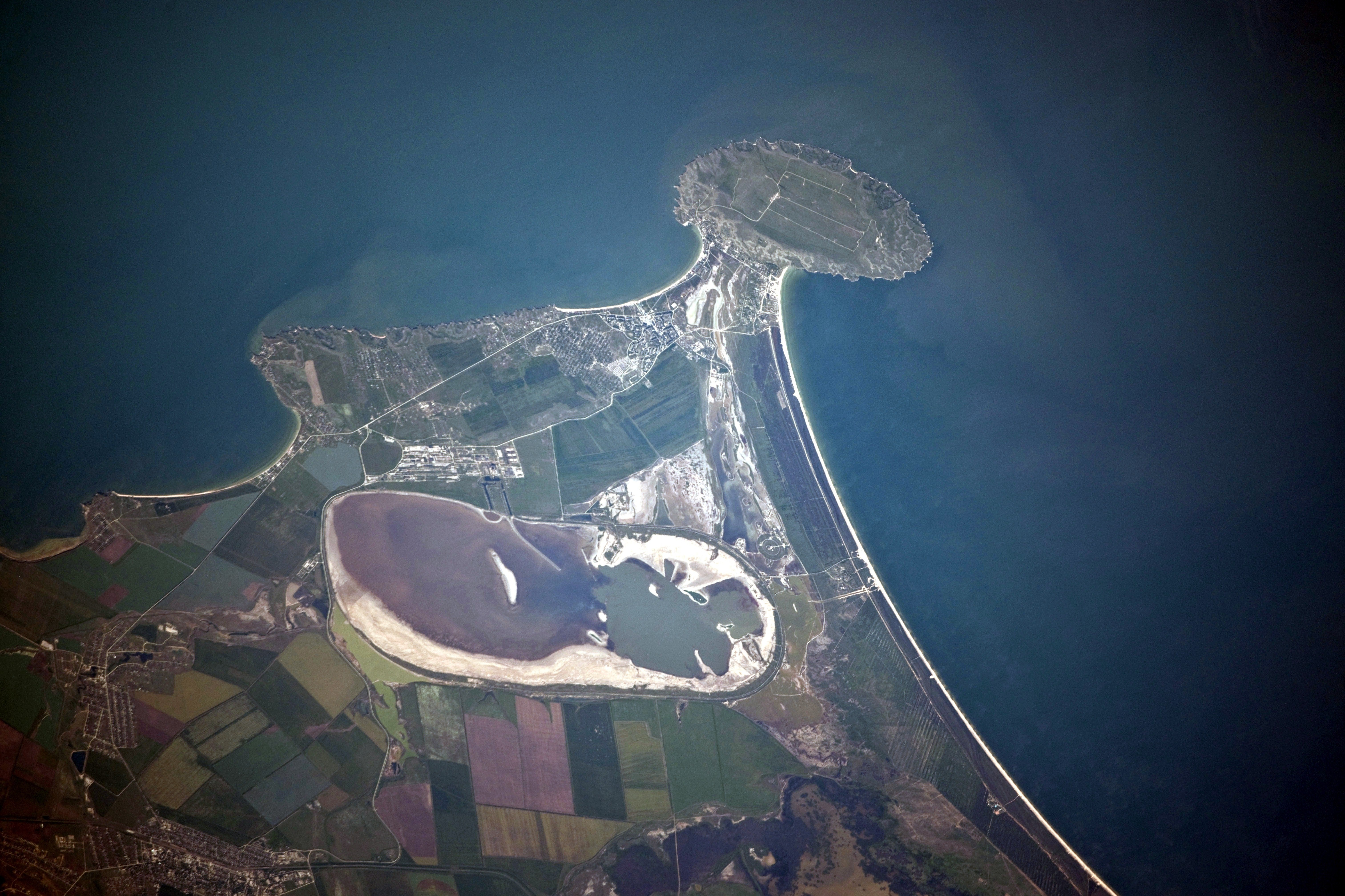 Cape Kazantip is a prominent headland on the Kerch Peninsula, which defines the southern shore of the Sea of Azov and the east extension of the Crimean Peninsula. During the Second World War, German and Soviet forces fought on the Kerch Peninsula, with the line of battle impinging on areas shown at the bottom of the image. The distance from the tip of the Cape to the largest local city, Lenine (population ~70,000, image lower left) is only 20 kilometres.